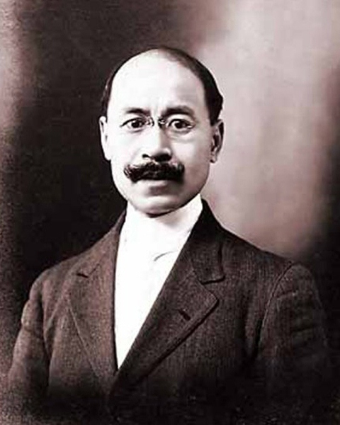 Zhao Shibei (1871-1944)